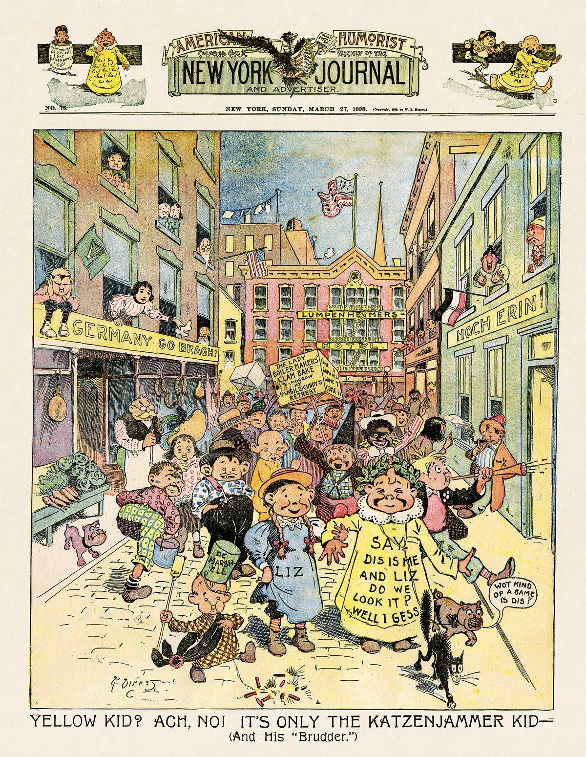 In this installment of "The Katzenjammer Kids", artist Rudolph Dirks mocks R. F. Outcault's "Yellow Kid". Note that not only is one Katzenjammer Kid wearing the signature yellow nightshirt with words, but the other is dressed as the Yellow Kid's girlfriend Liz. The text in this image should be transcribed and included in the description on this page. See also Inscription . The Google OCR tool may be of use in transcribing images.